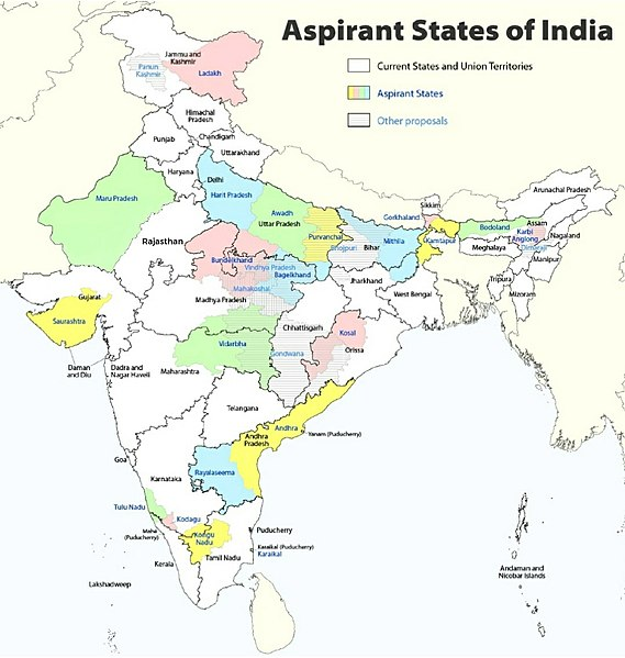 . Updated by me for everyone